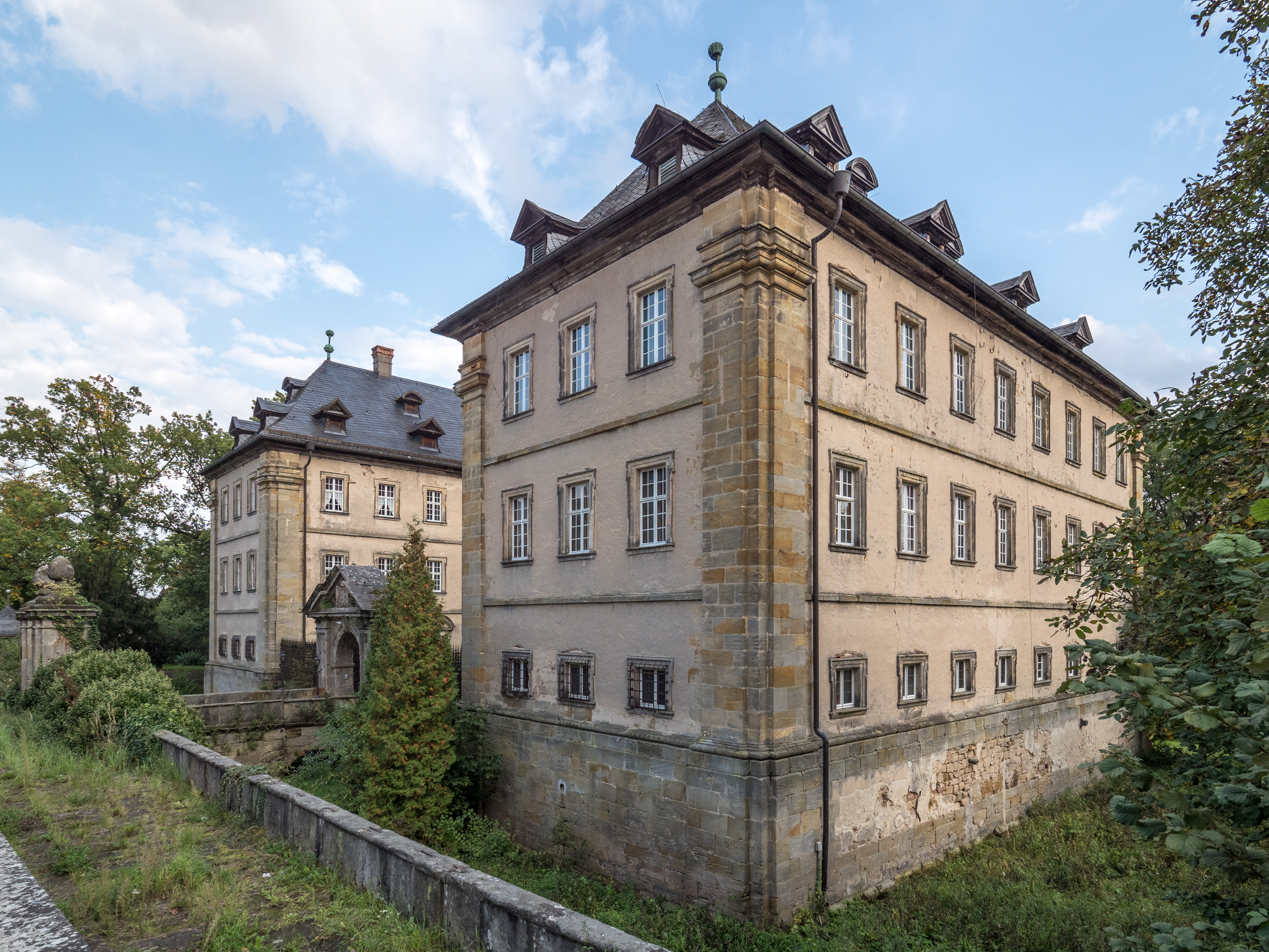 Gereuth castle